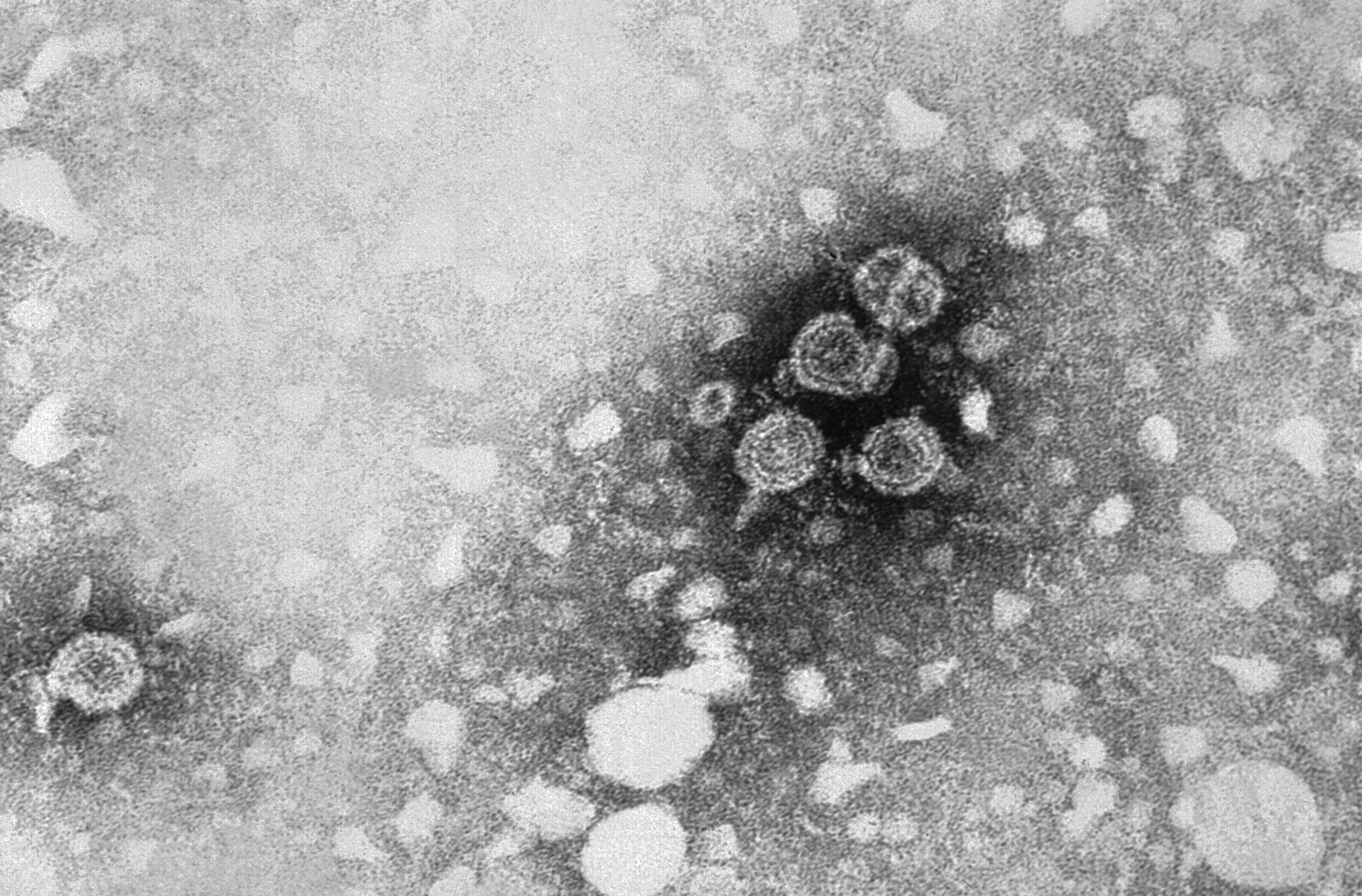 TEM micrograph of hepatitis B virions, also known as Dane particles.